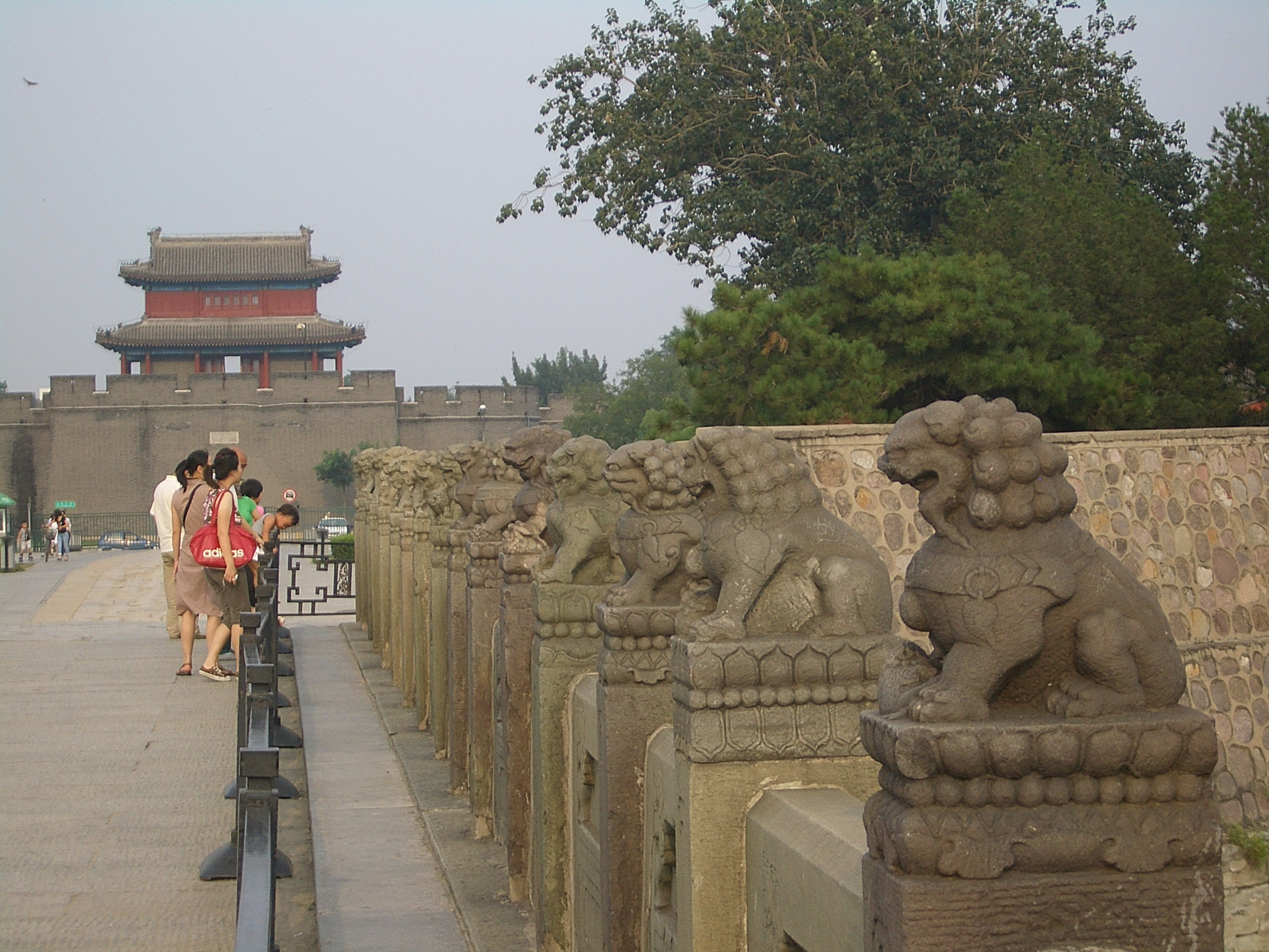 A few of the innumerable stone lions on the Lugou Bridge. The gates of Wanping Castle, an old fort at the east end of the bridge, are seen in the background.